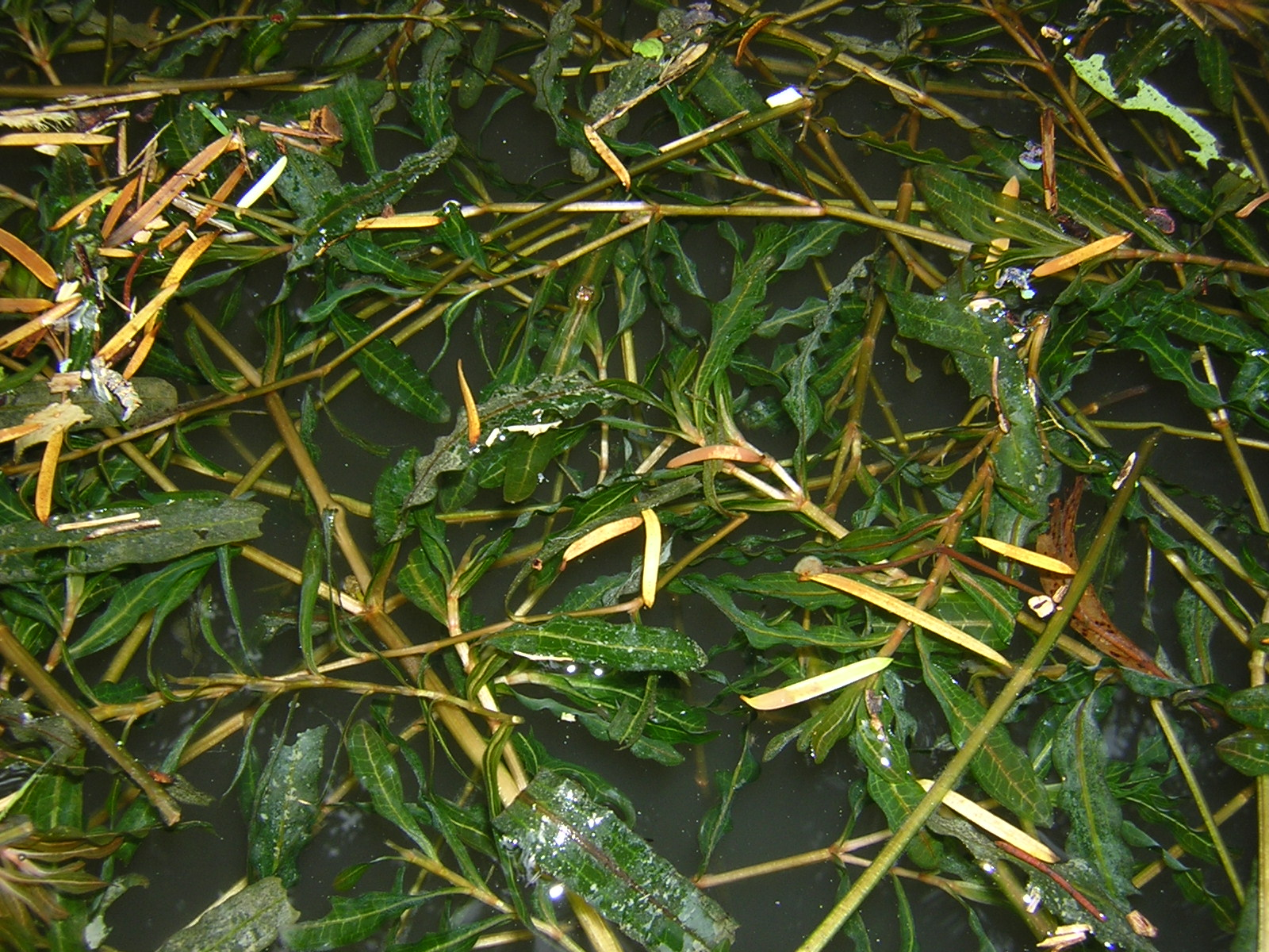 Potamogeton crispus Author: Augustin Roche Source : [1]